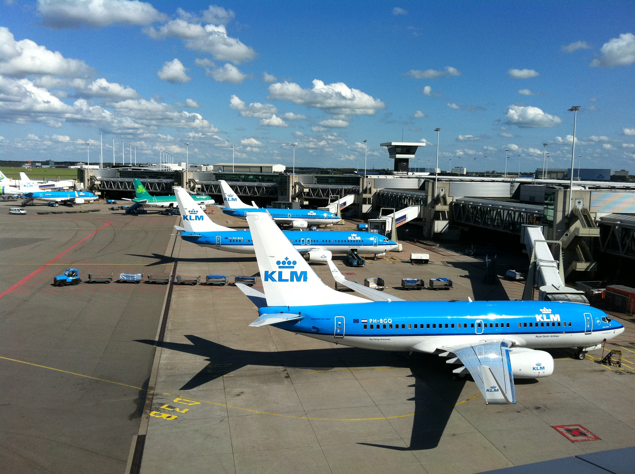 Schiphol Airport